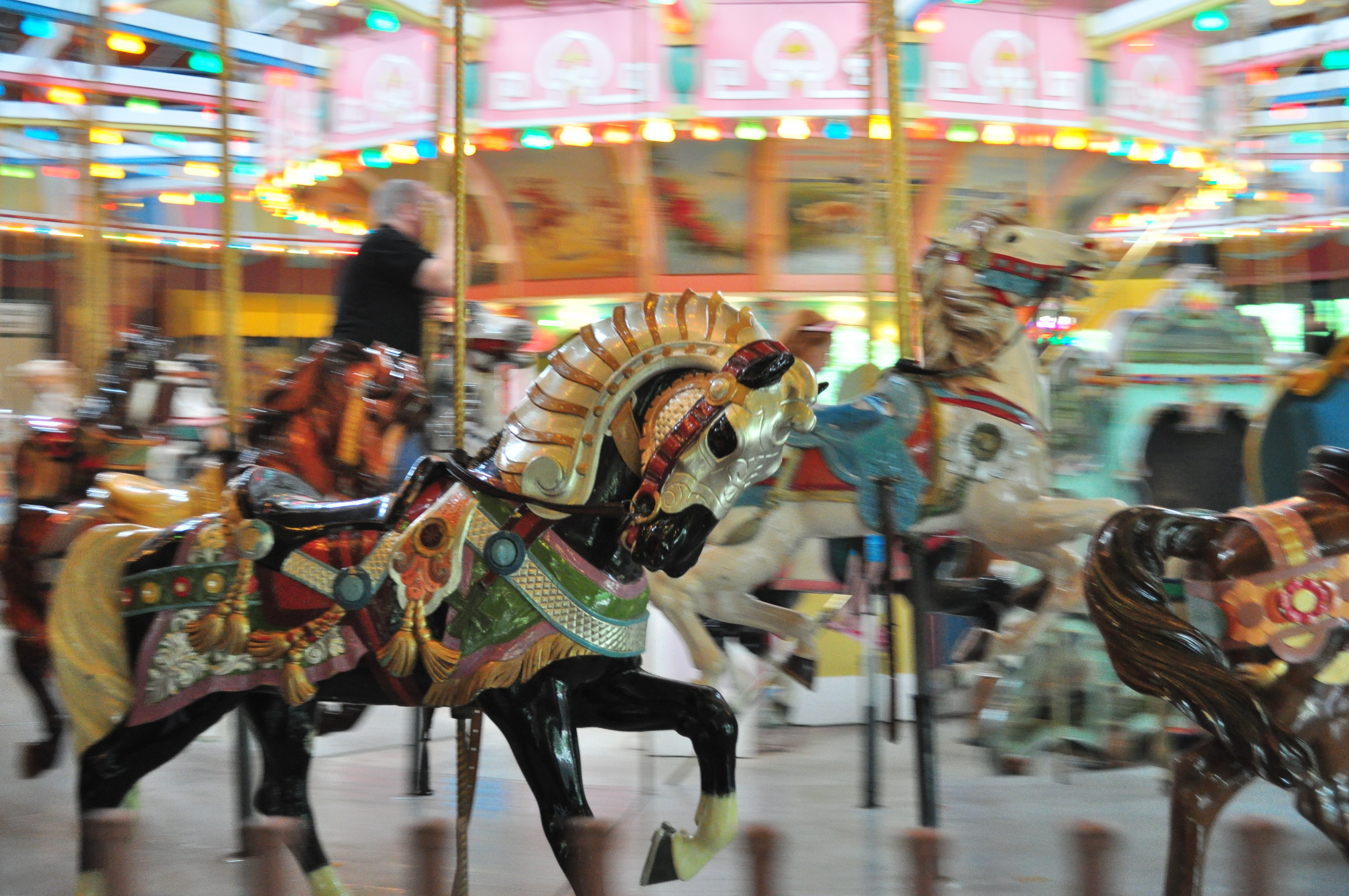 Holyoke Merry-Go Round carousel 05